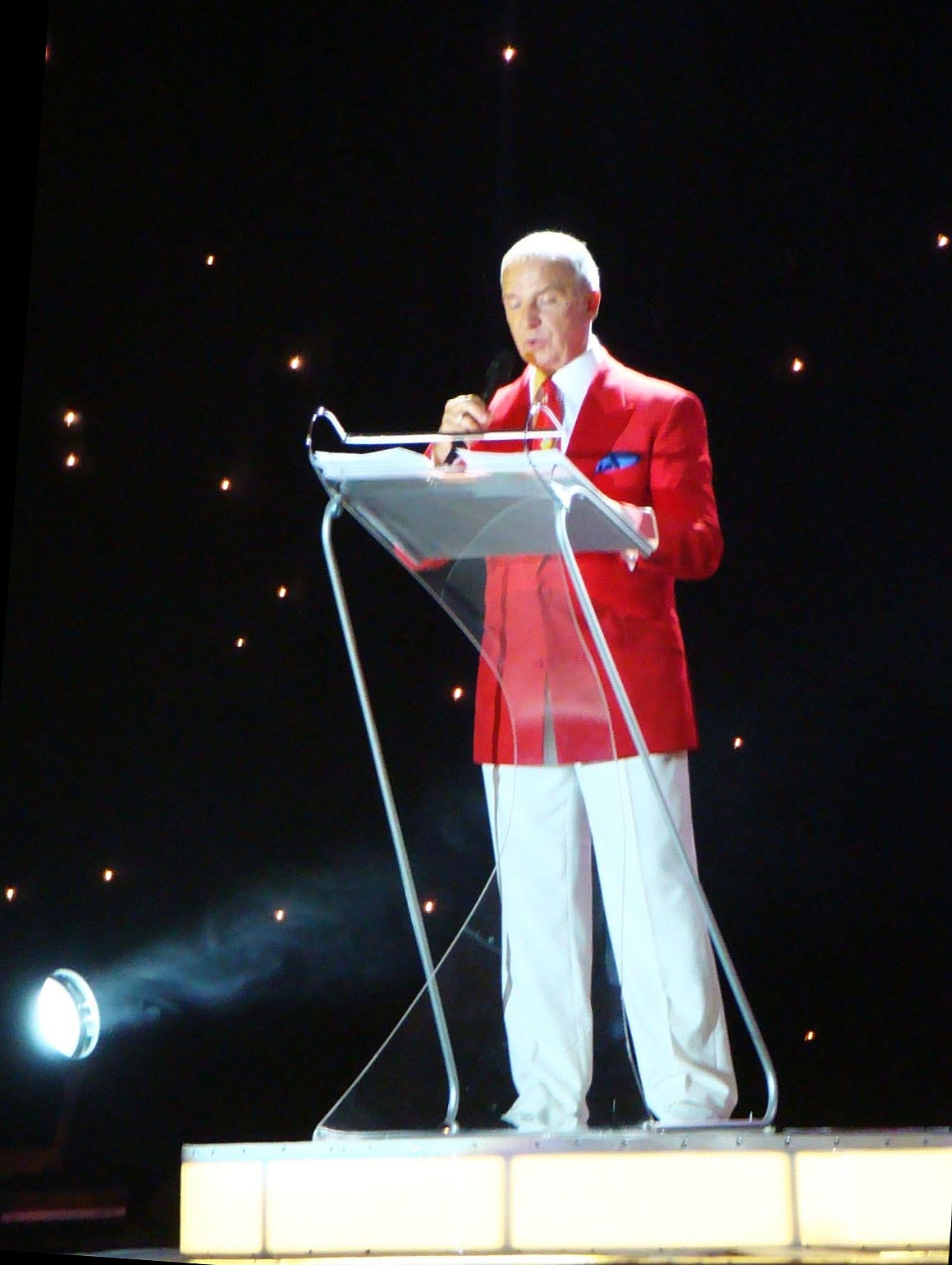 Stanislav Popov - Vice-president of World Dance Council